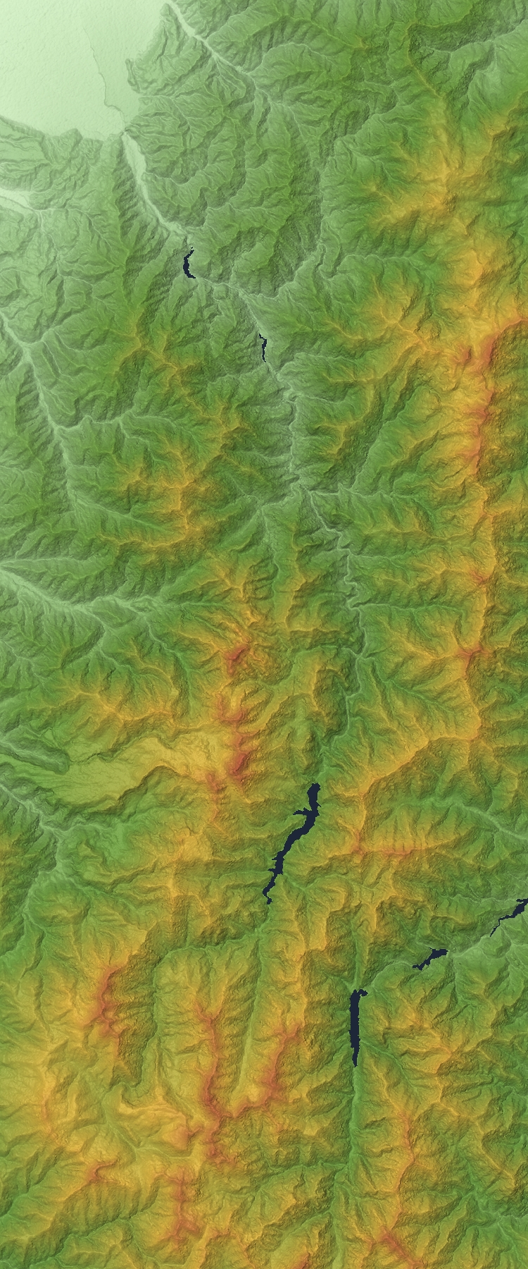 Kurobe Gorge (Kurobe-kyokoku) in Toyama Prefecture, Honshu, Japan.